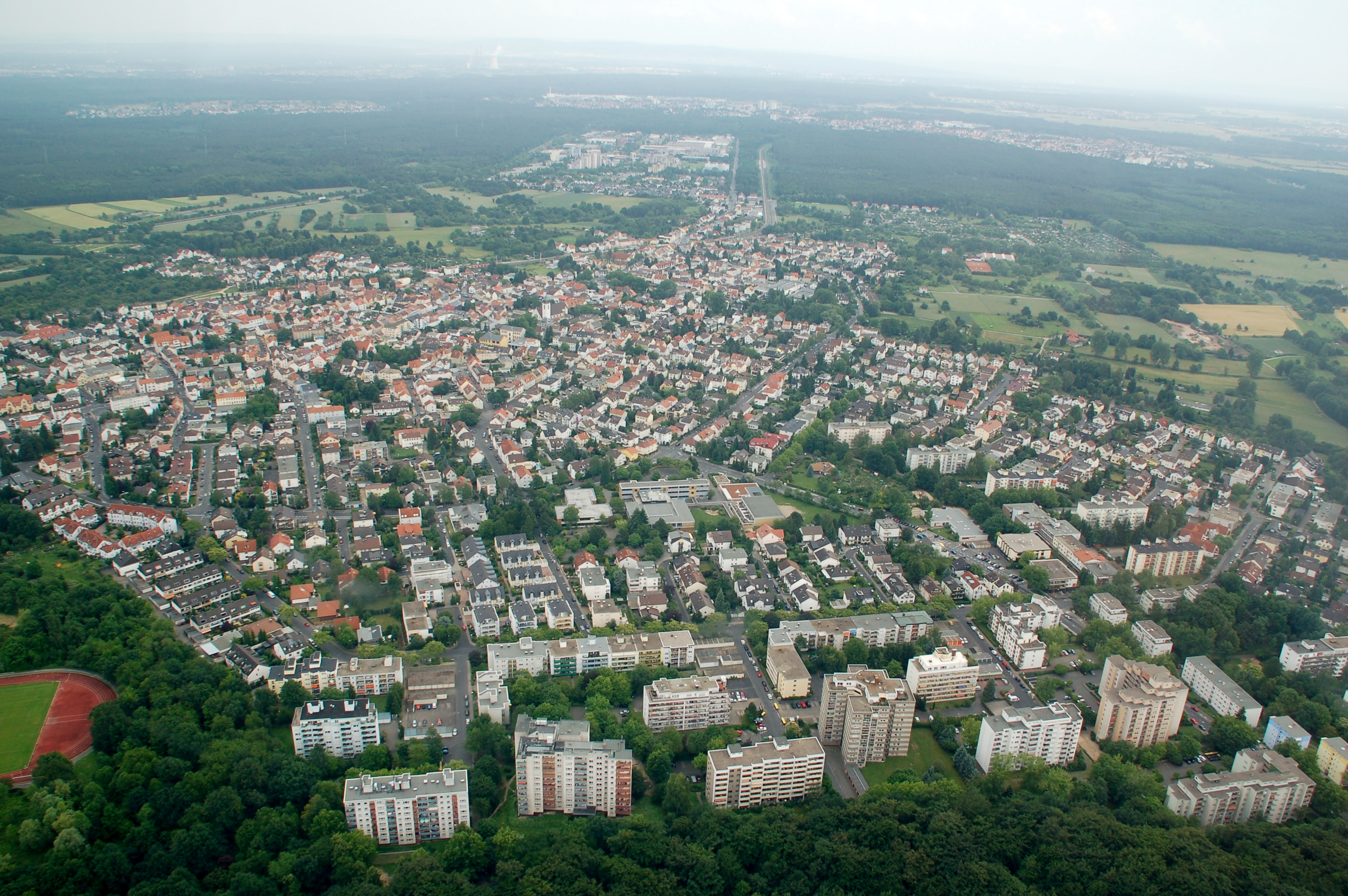 Aerial photograph of Bieber, Offenbach, Hessen, Germany